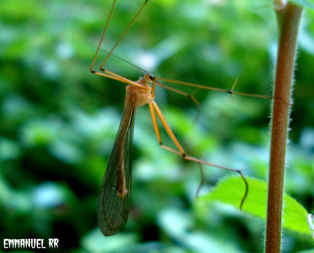 Mecóptera , Bittacidae , Bittacus banksi